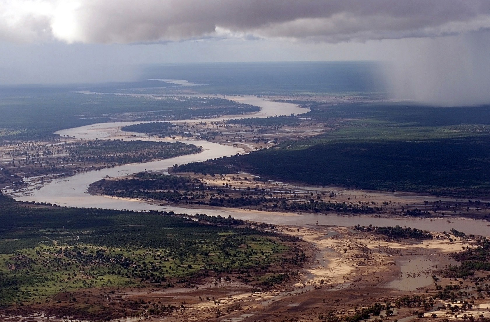 Aerial view, extreme long shot, looking down as the Limpopo River winds its way through Southern MOZAMBIQUE, where it recently crested its banks and sent floodwaters rushing through towns and farmland, forcing people from their homes and wreaking havoc with the countries infrastructure. Even though waters have receded over the past week, heavy rains seen in the distance, continue to threaten the region with more flooding. C-130 aircraft (not shown), assigned to the 37th Airlift Squadron at Ramstein Air Base, Germany, fly daily Keen Sage aerial surveillance missions over MOZAMBIQUE to help find stranded flood victims and survey flood levels and damage caused by the flooding in Southern Africa. The 37th Airlift Squadron C-130 aircraft, are deployed to Hoedspruit Air Force Base, South Africa, as part of the United States Operation Atlas Response, humanitarian relief efforts.